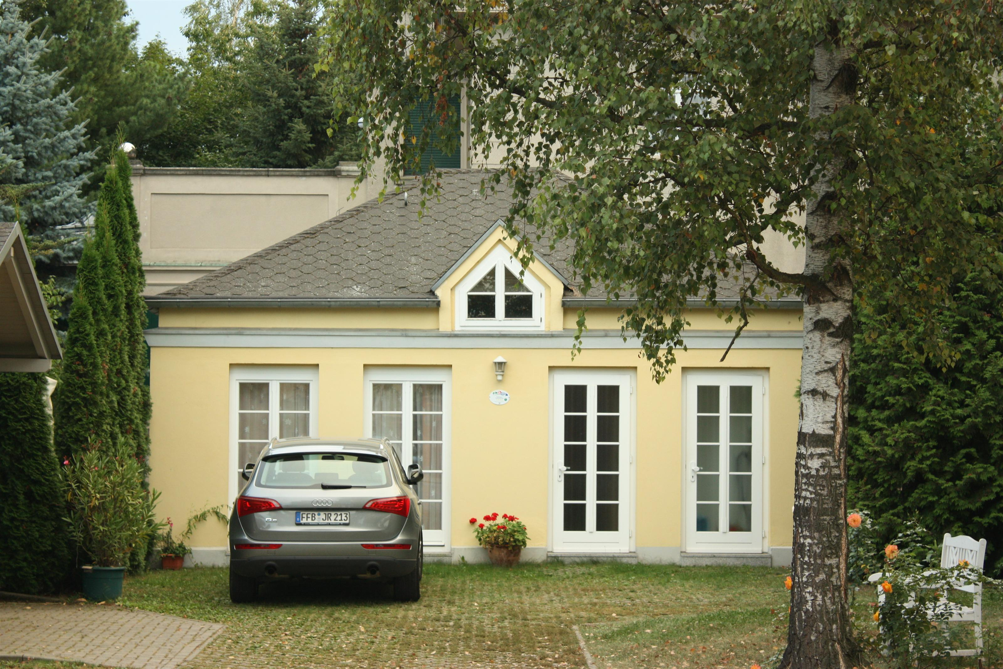 This is a photograph of an architectural monument.It is on the list of cultural monuments of Quedlinburg Kaiser-Otto-Straße 05 (Quedlinburg)